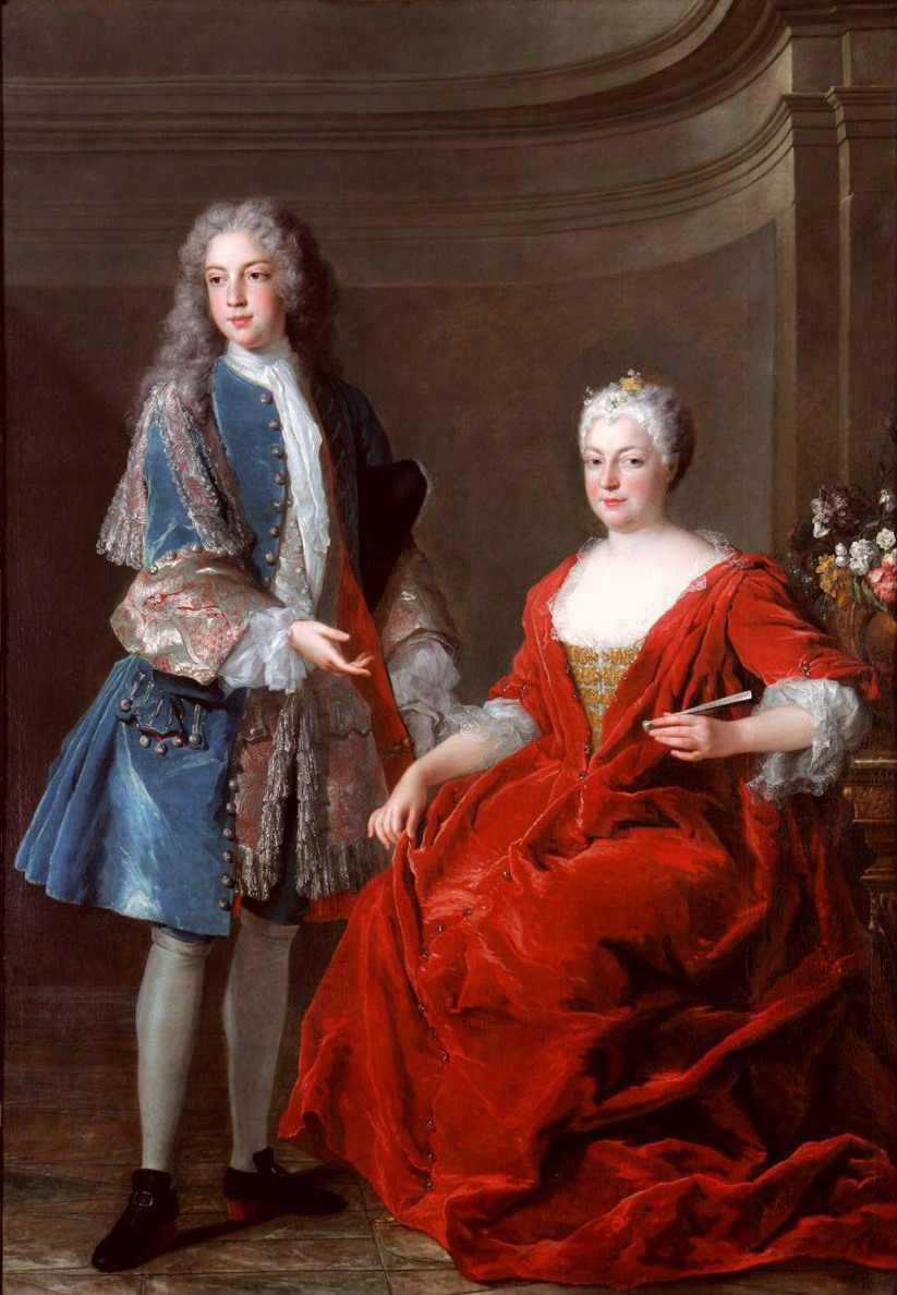 Portrait of Élisabeth Charlotte d'Orléans (1676-1744) and her son, future Francis I, Holy Roman Emperor (1708-1765)